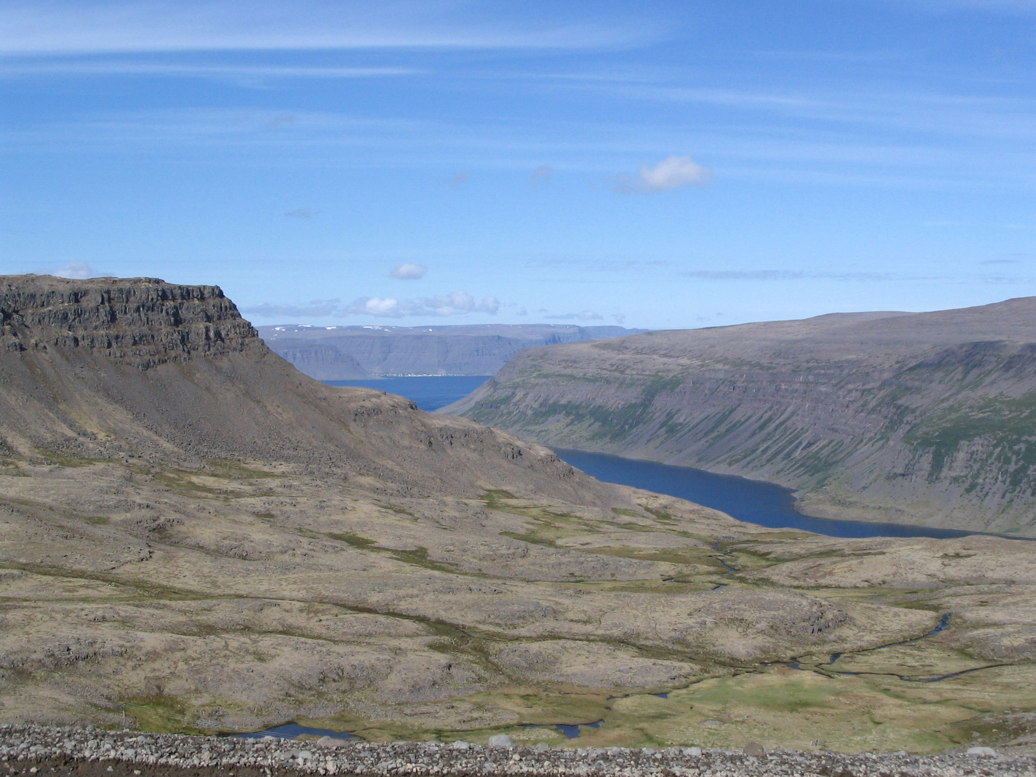 Jighlands north of Brjánslækur